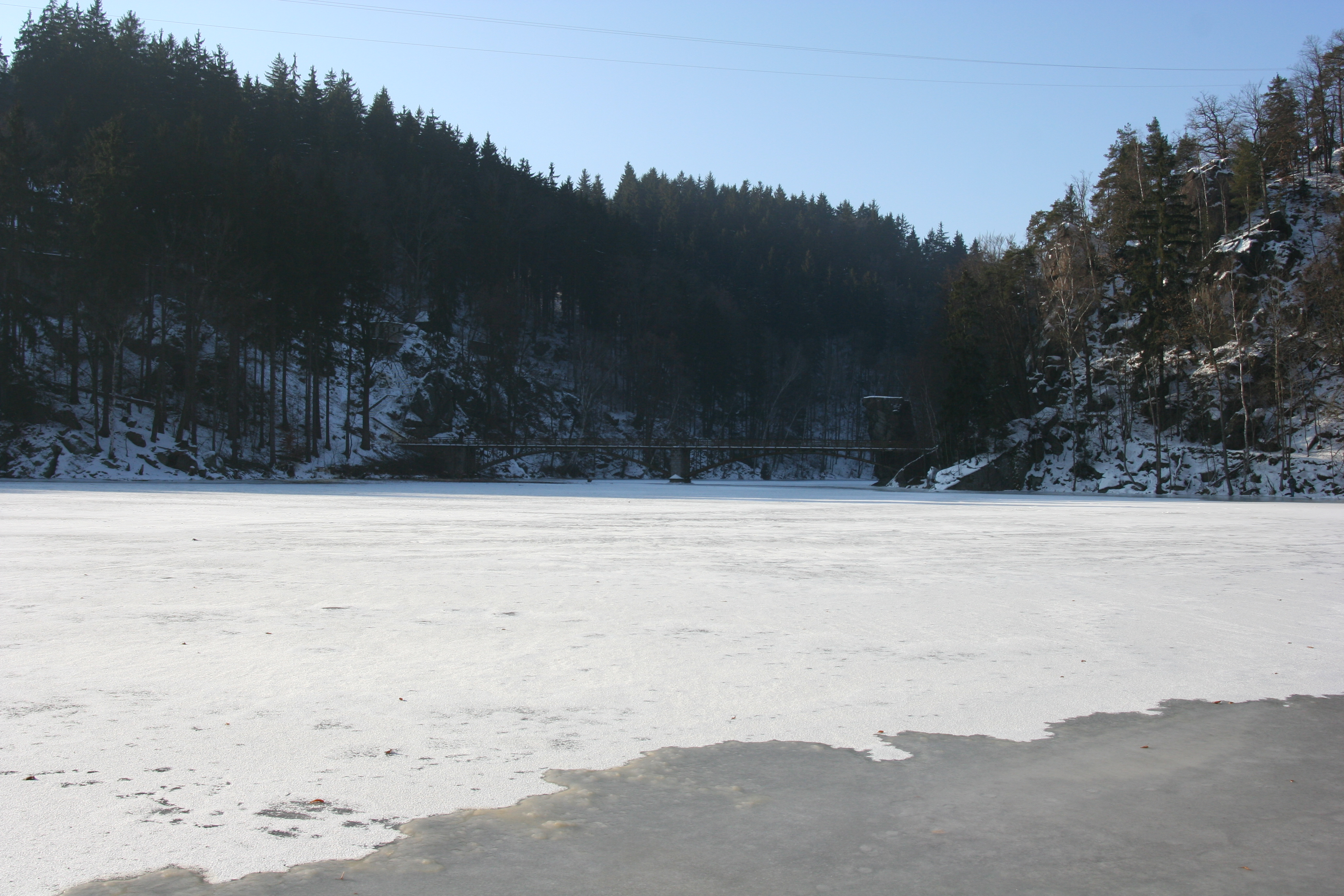 Frozen lake (Polish Jezioro Modre, German Talsperre Boberröhsdorf) - Bóbr river near Perła Zachodu (German Turmsteinbaude), Siedlęcin, Lower Silesia, Poland.